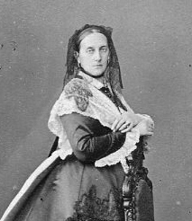 Maria Nikolaievna, Duchess of Leuchtenberg daughter of Tsar Nicholas I